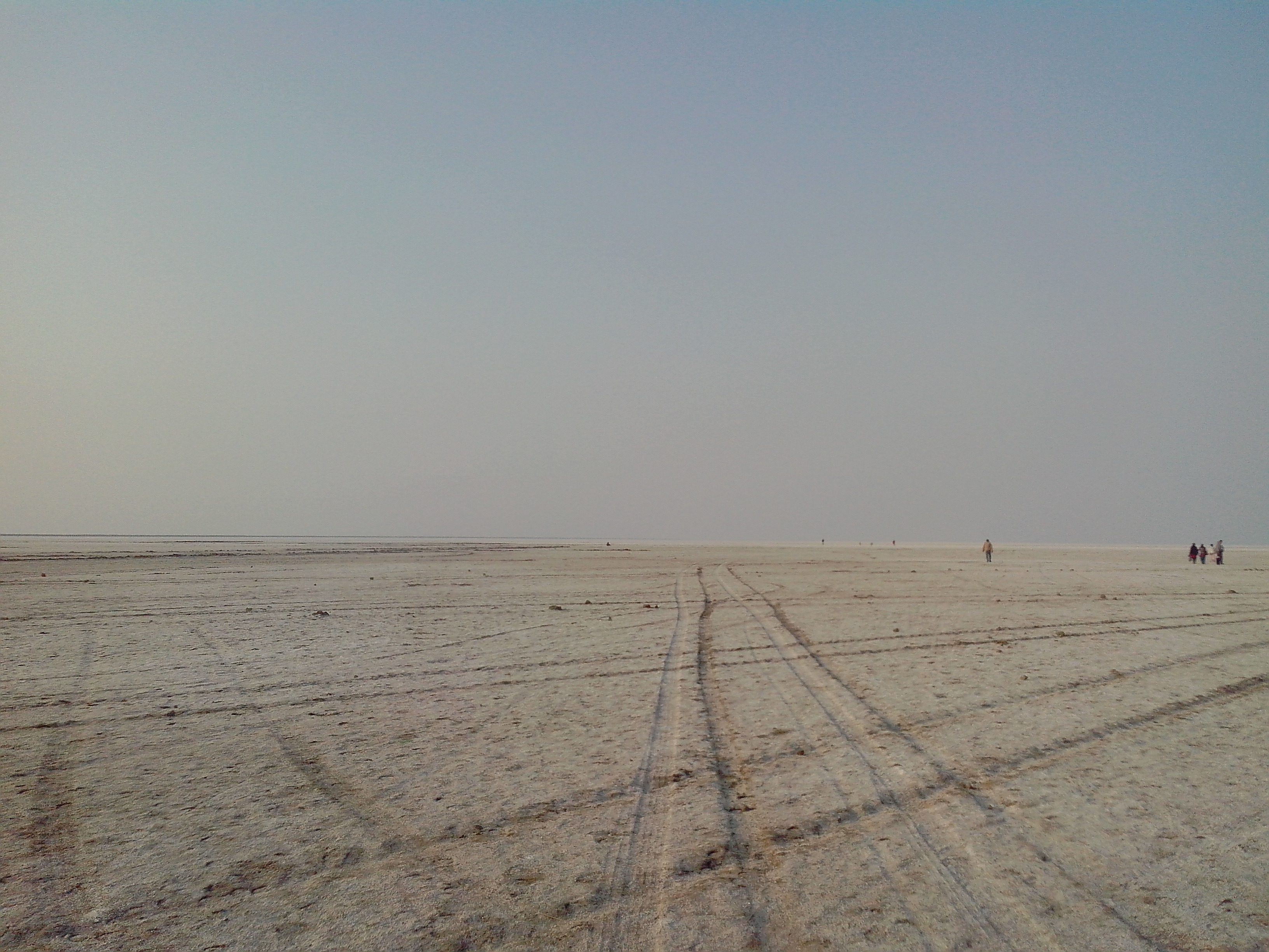 Landscape of White Rann of Kutch. The land is white due to sea water drying up resulting in Salt deposition all over.